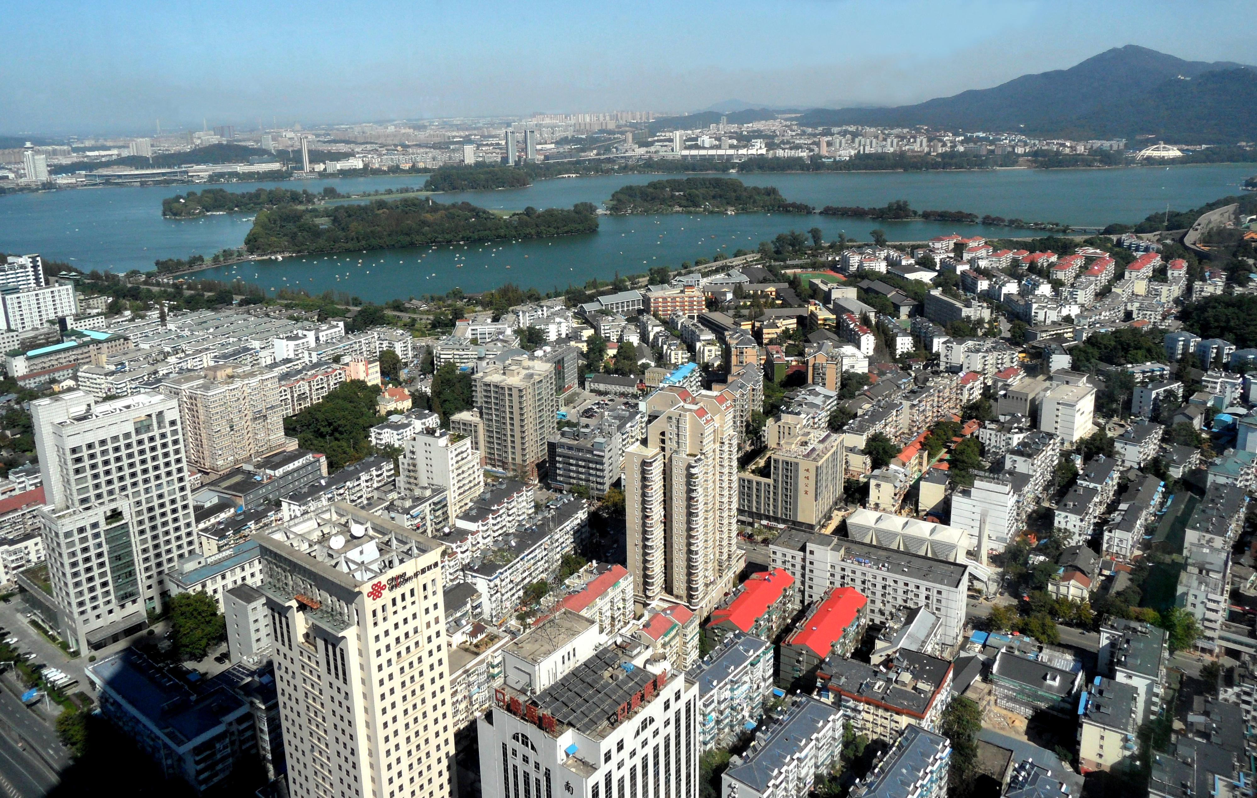 A bird's-eye view of Nanjing, taken from Zifeng Tower, Xuanwu Lake and Purple Mountain are visible